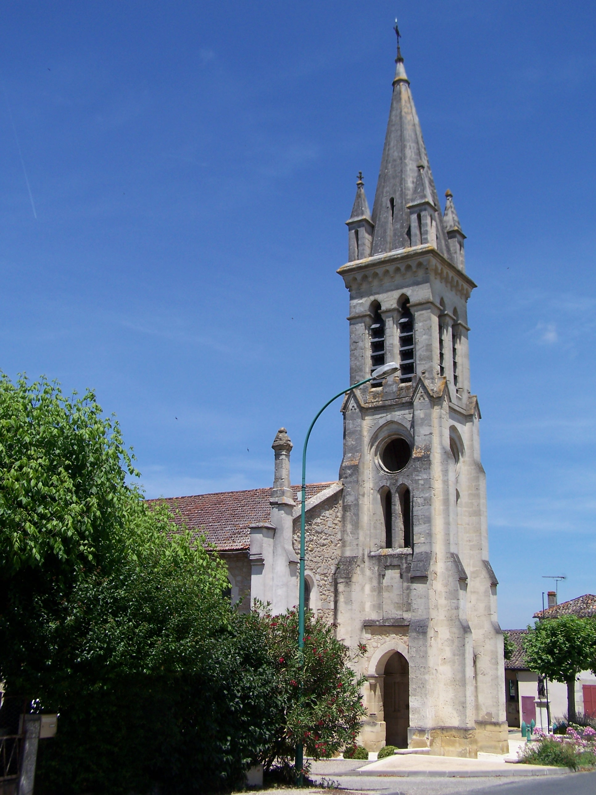 Church of Saint-Sauveur-de-Meilhan (Lot-et-Garonne, France)